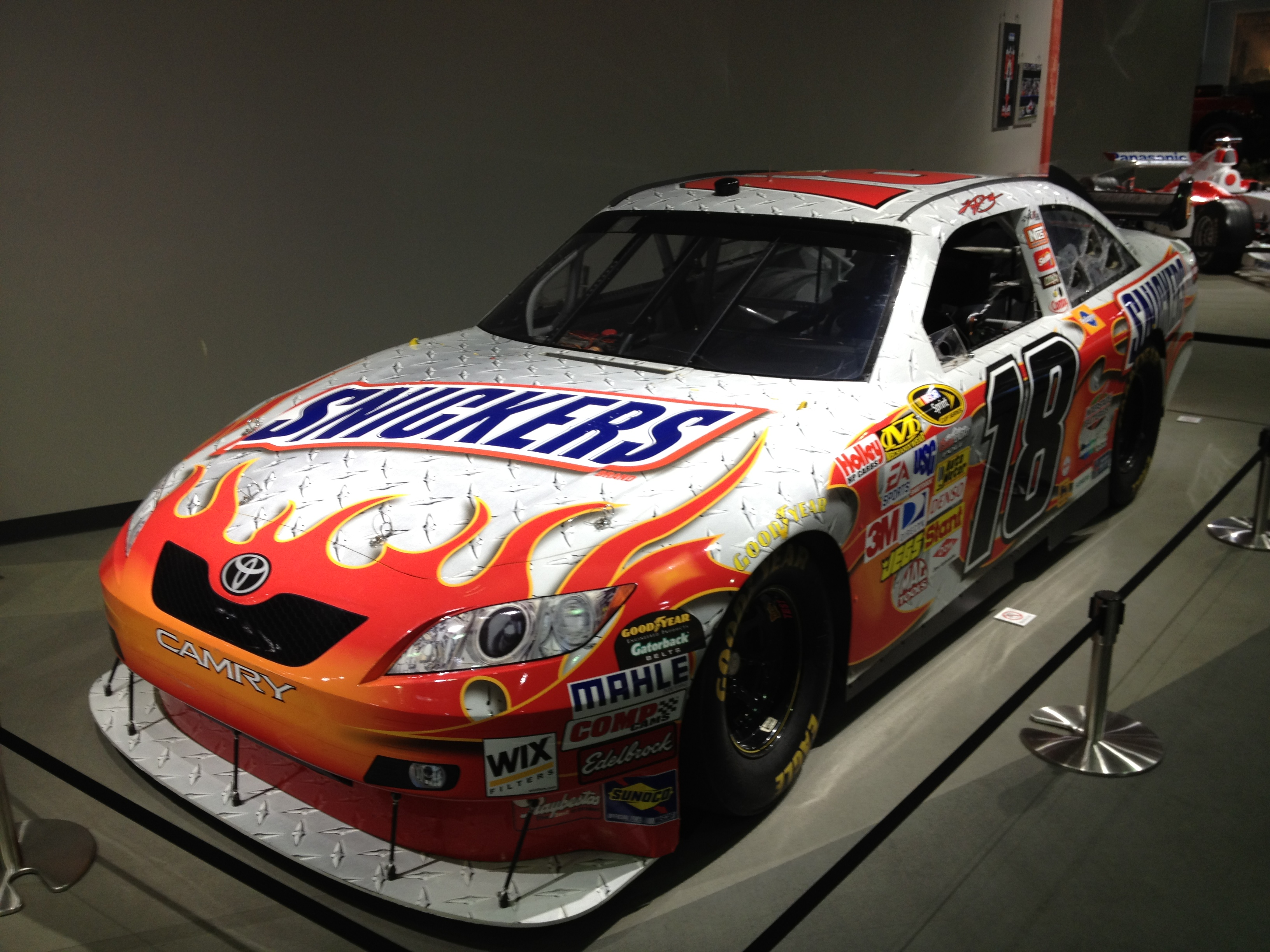 Kyle Busch's car